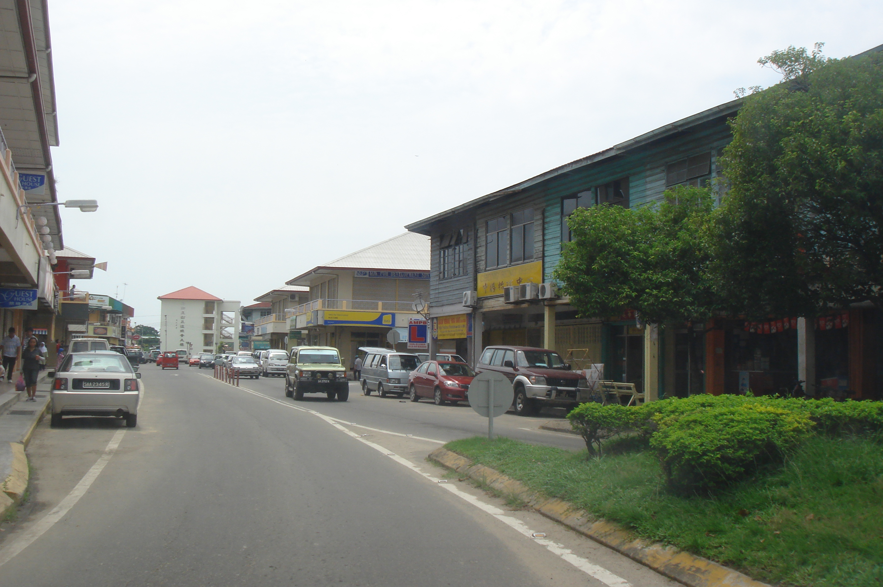 Papar town centre, Sabah, Malaysia.